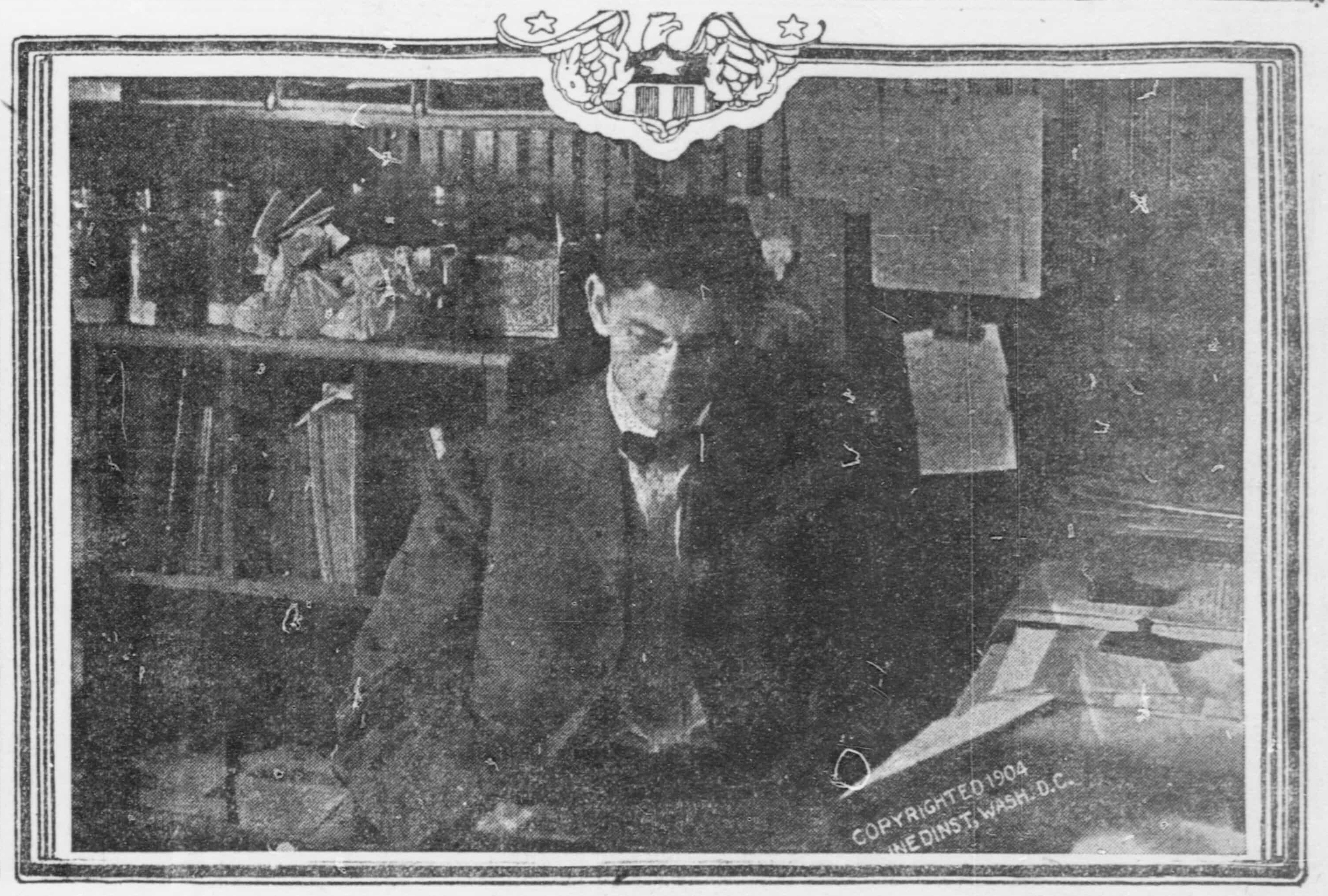 Guy N. Collins, botanist. Original caption: G. N. COLLINS Assistant Botanist in the Bureau of Tropical Agriculture and Prof Cooks Associate in the Investigation of the Habits of the Guatemalan Ant. He Accompanied Prof Cook on the First Trip to Guatemala.